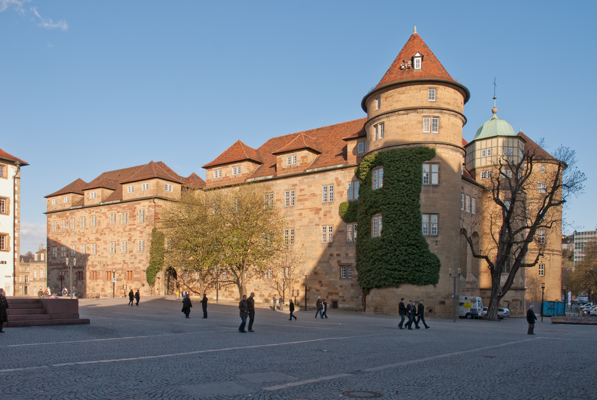 Altes Schloss in Stuttgart, see Old Castle (Stuttgart)